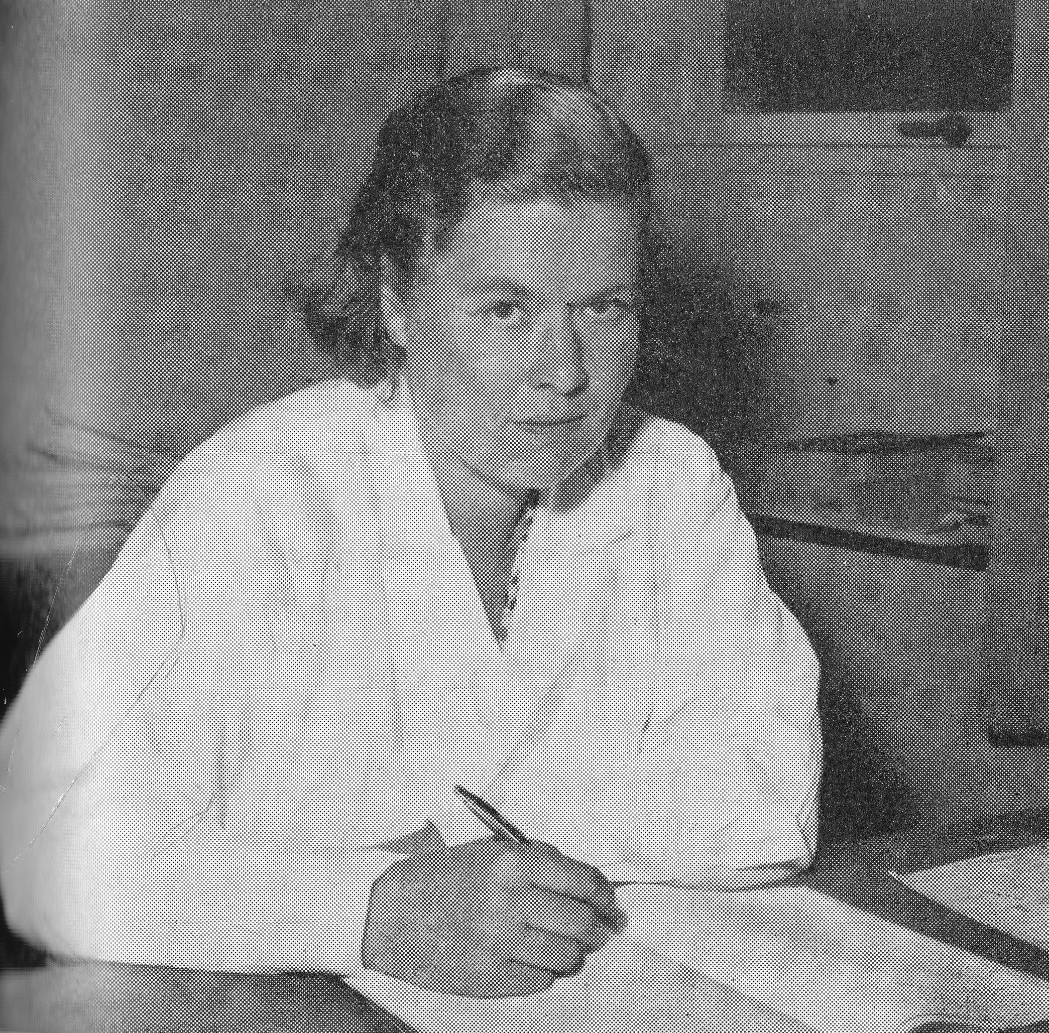 Swedish physician and forensic pathologist Ingrid Lingmark (1918-1974)